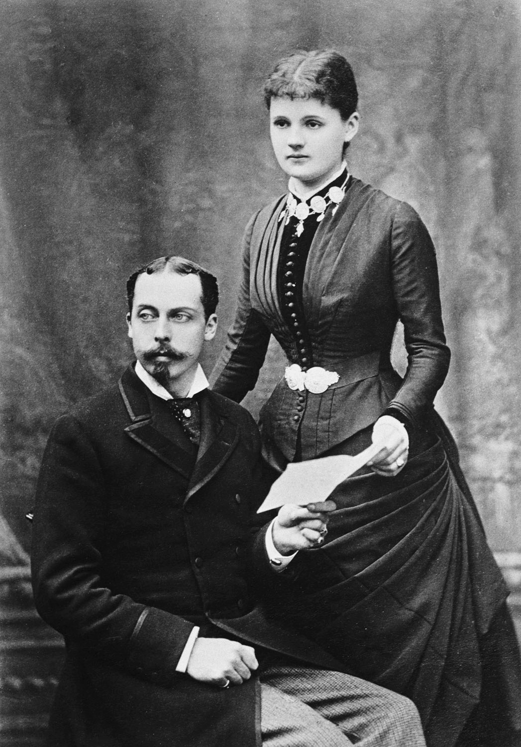 Leopold, Duke of Albany, and Princess Helen of Waldeck-Pyrmont in 1882